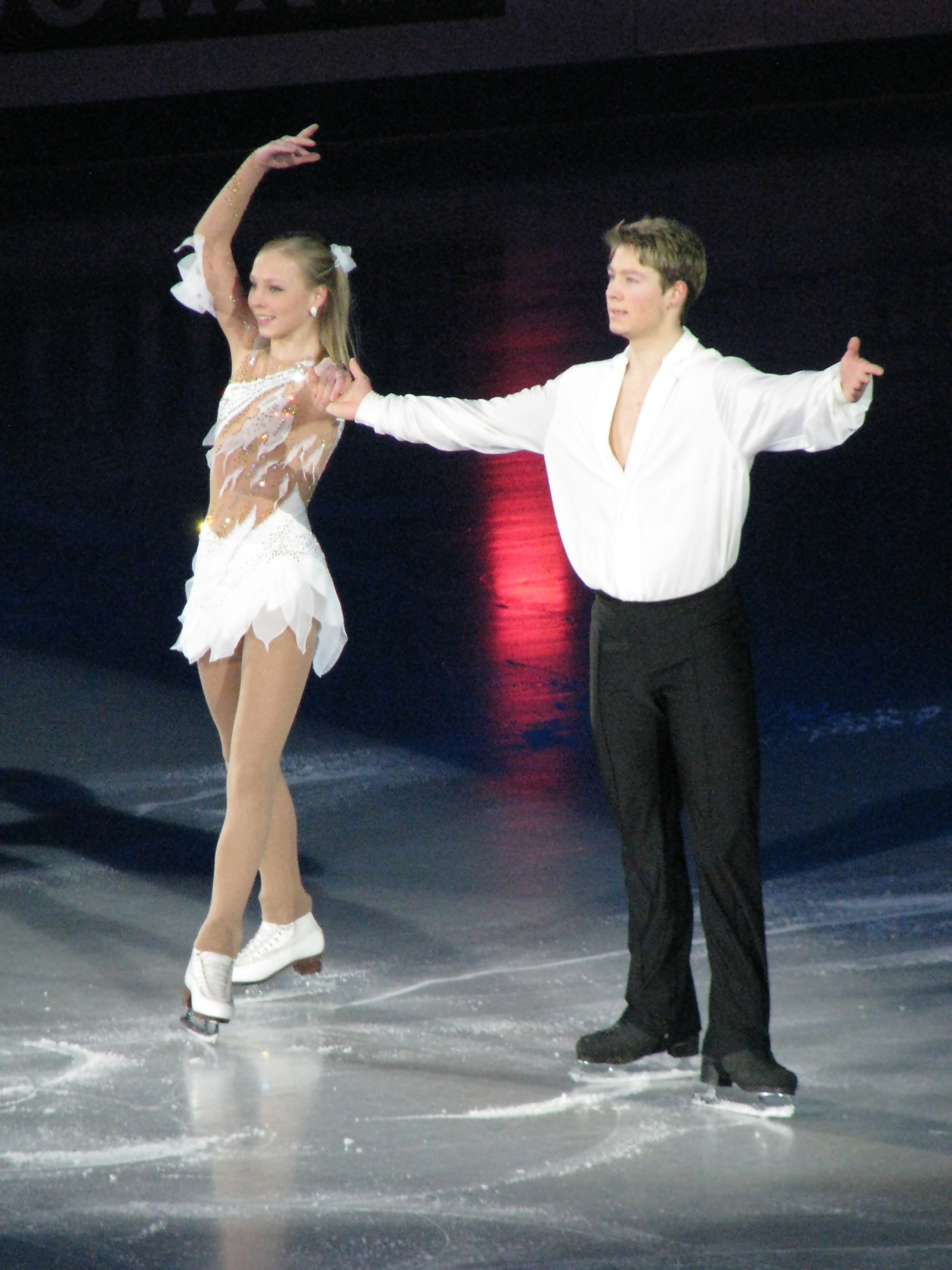 Maria Sergejeva & Ilja Glebov in 2010 European Figure Skating Championships (Gala)